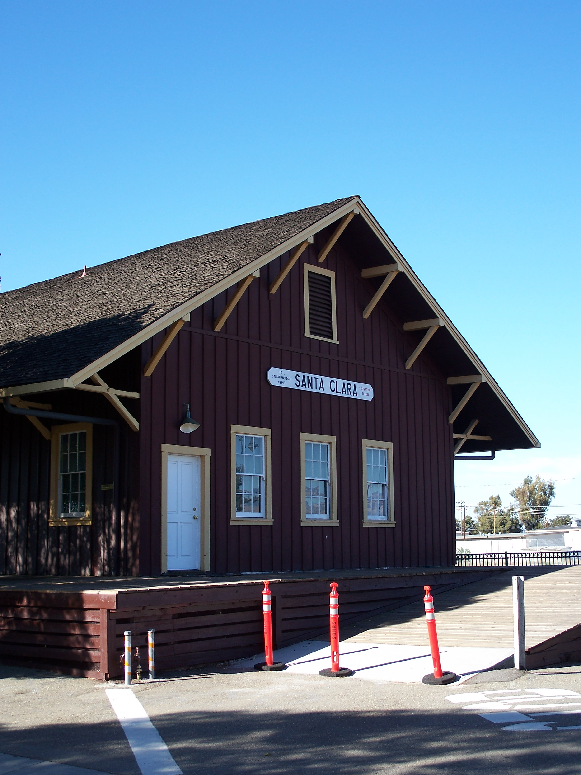 Railroad depot. Santa Clara, California, USA More details about subject